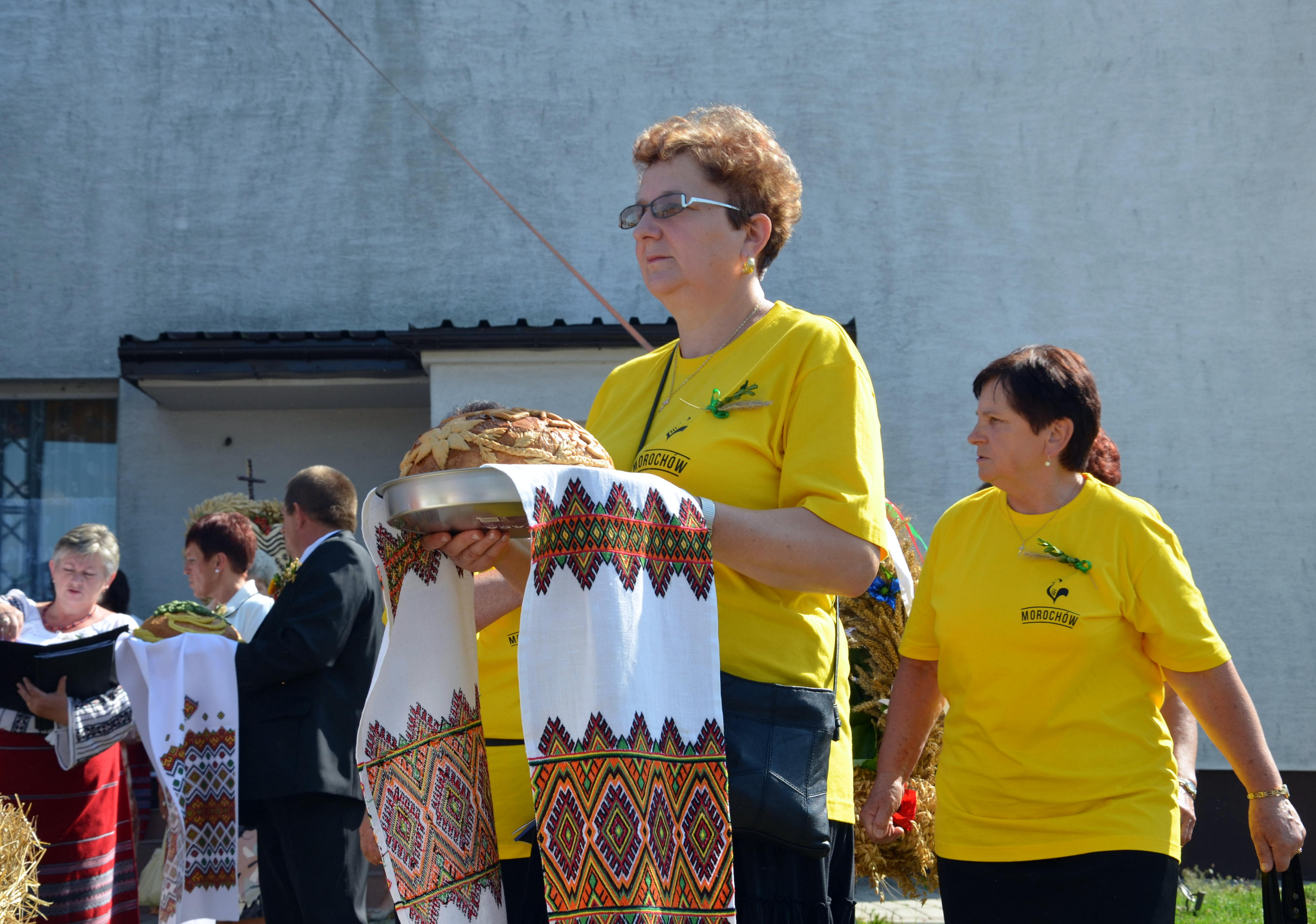 Harvest Thanksgiving 2013 in Mokre